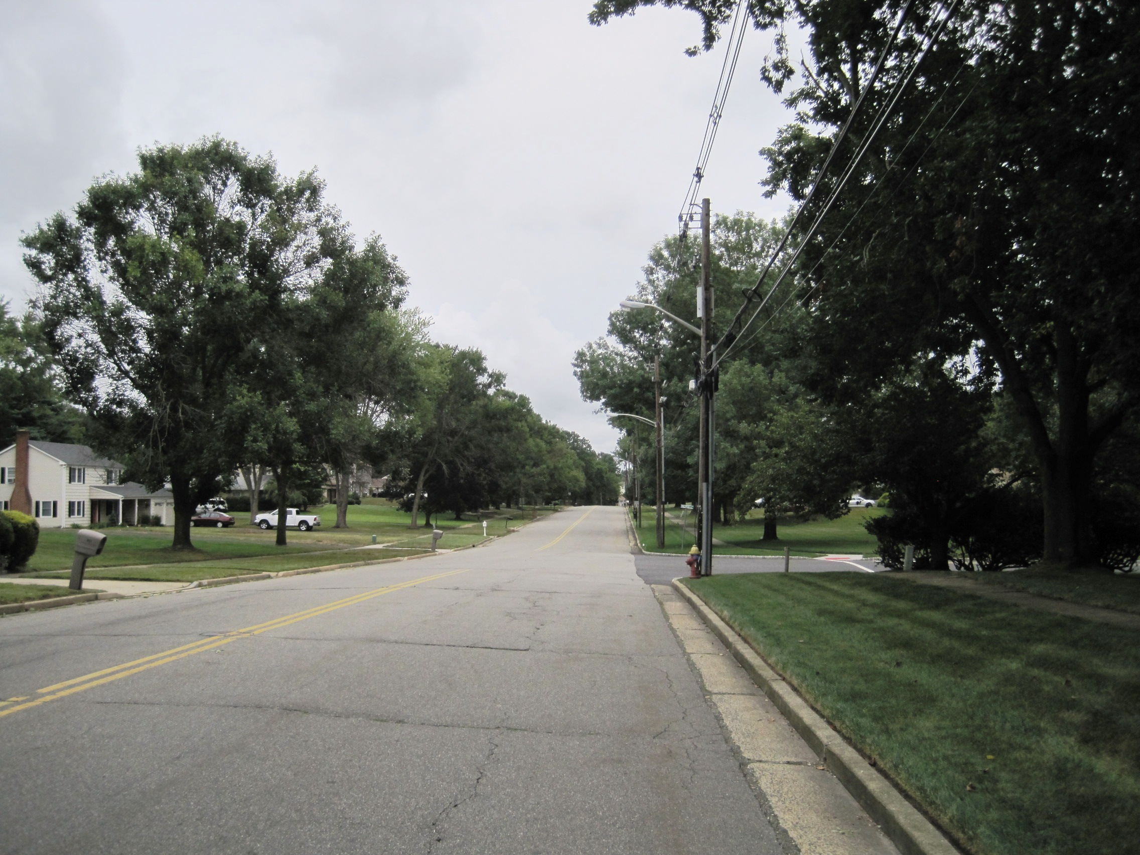 Photo of Monmouth Heights at Manalapan, New Jersey, an planned community within Manalapan Township. Photo taken along eastbound Taylors Mill Road at Smallwood Court.